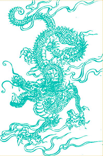 Chinese dragon, symbol of Chinese culture and Chinese folk religion.